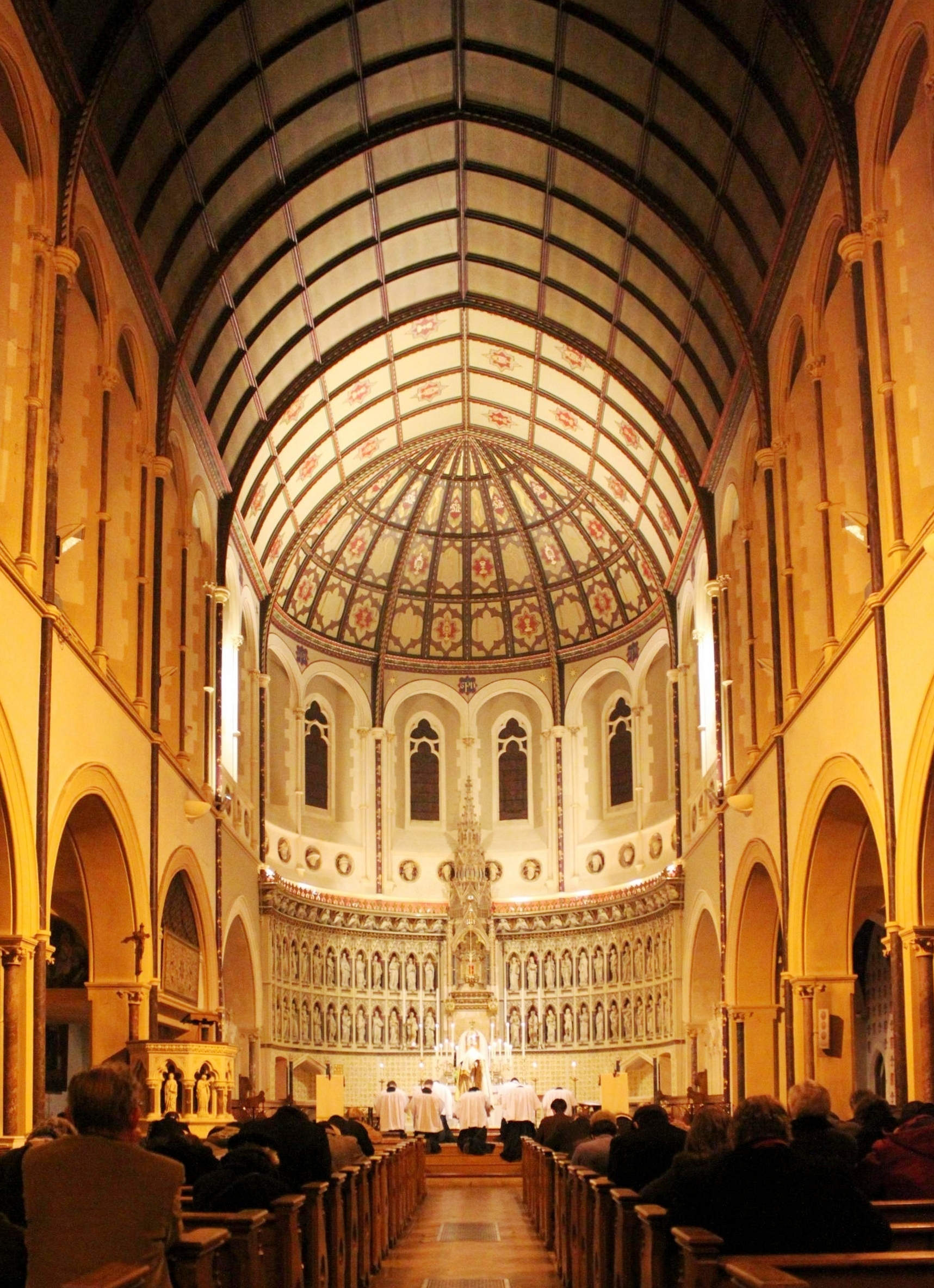 Benediction at the Oxford Oratory